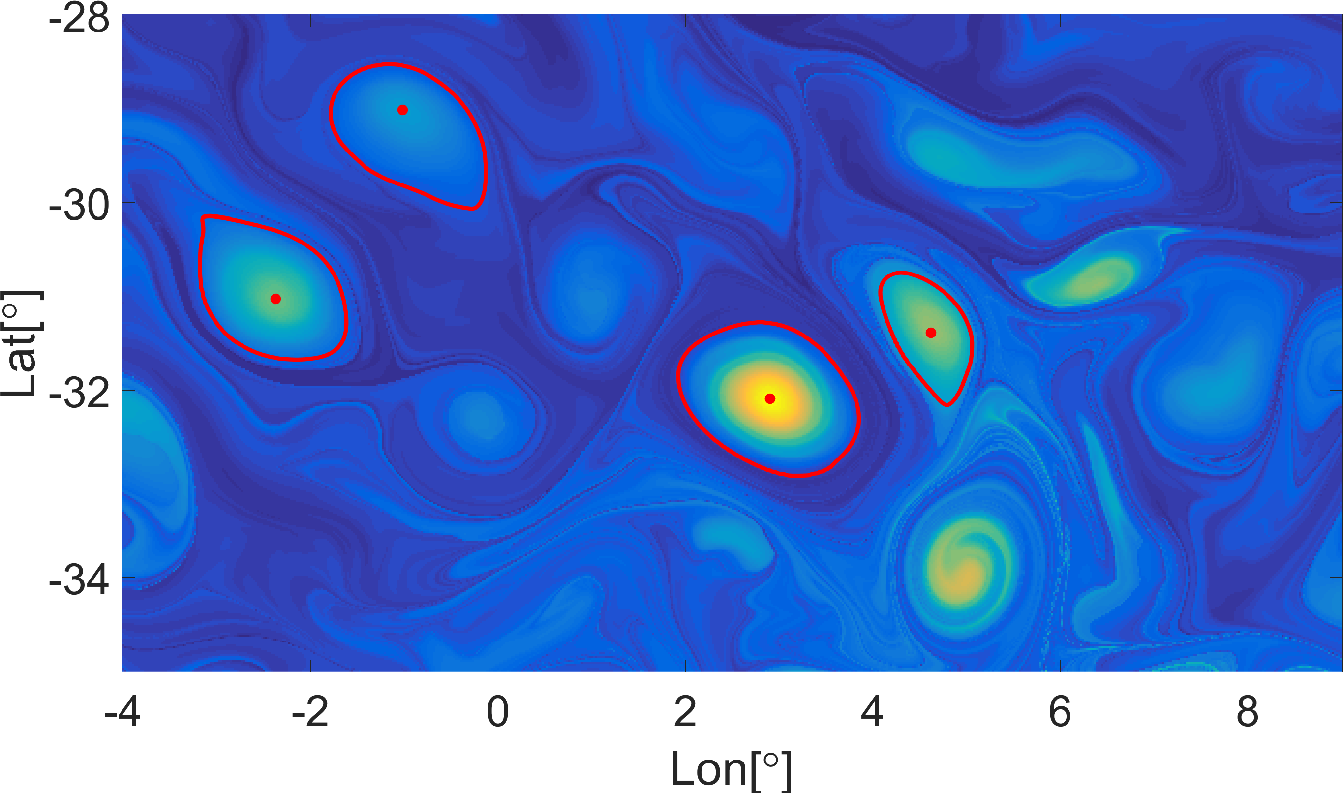 Rotationally coherent Lagrangian vortices at time t0 = November 11, 2006, identified from the contours of LAVD with T = 90 days. Shown in the background is the contour plot of LAVD for reference